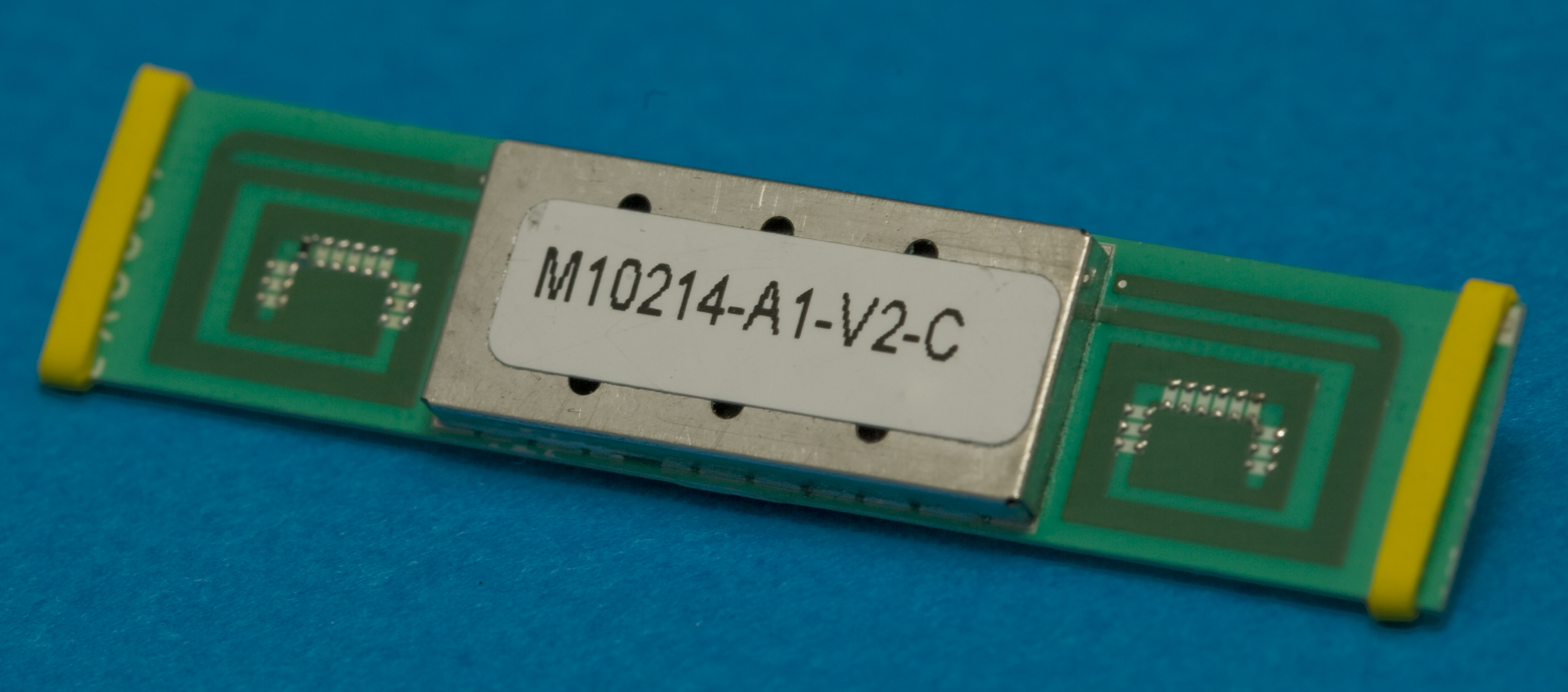 SiRF Star III based GPS receiver with integrated antenna. M10214 from Antenova, a UK company. It is low cost antenna.